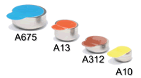 This picture shows the 4 most common Types of zinc-air button cells, used in hearing aids. While the number noted is manufacturer-independent, the prefixes and suffixes of the numbers aren't and may differ. (See List of battery_sizes#Zinc air cells (hearing aid)